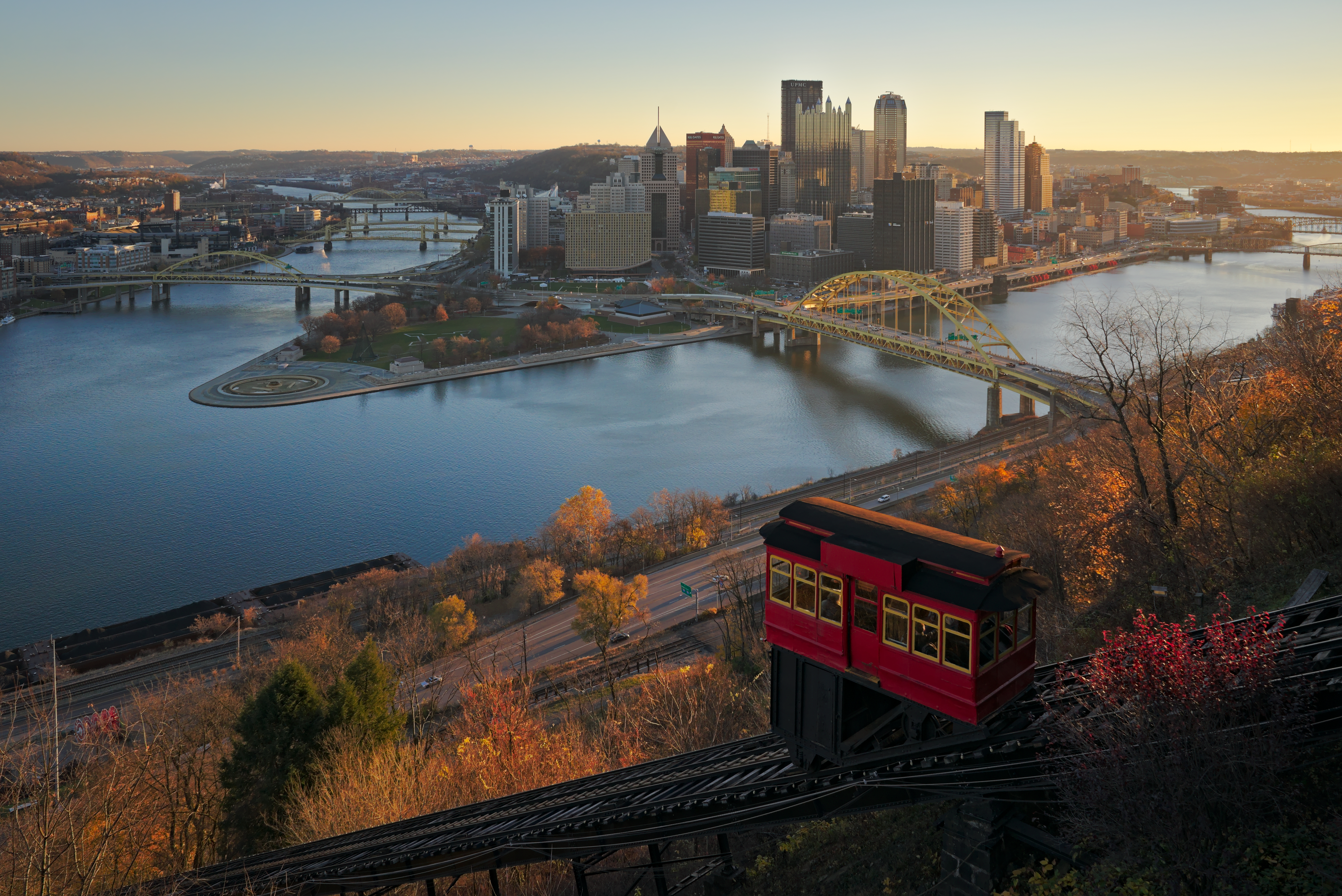 This is a classic composition viewed from the observation deck on at the top station of the Duquesne Incline in Pittsburgh. The Duquesne Incline is one of two surviving inclines in Pittsburgh, the other being the Monongahela Incline.